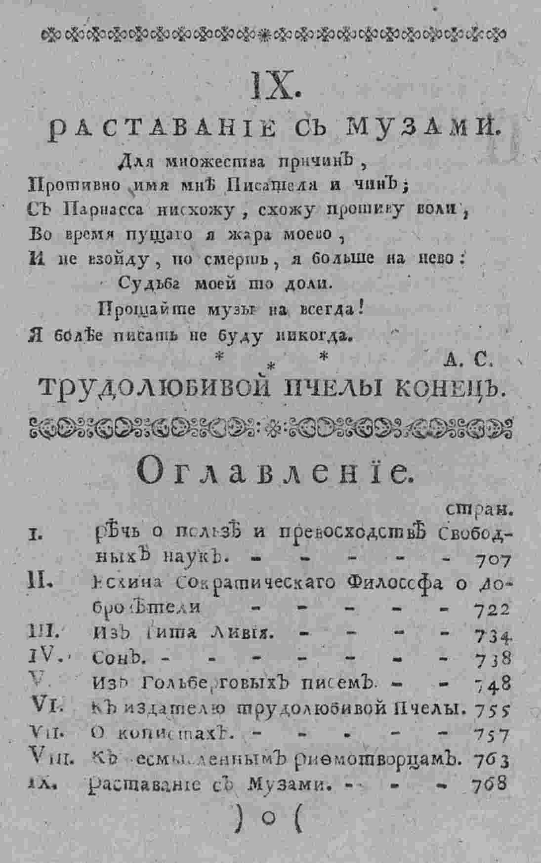 The Last Page of “Trudoludivaya Pchela” magazin № 12, 1759